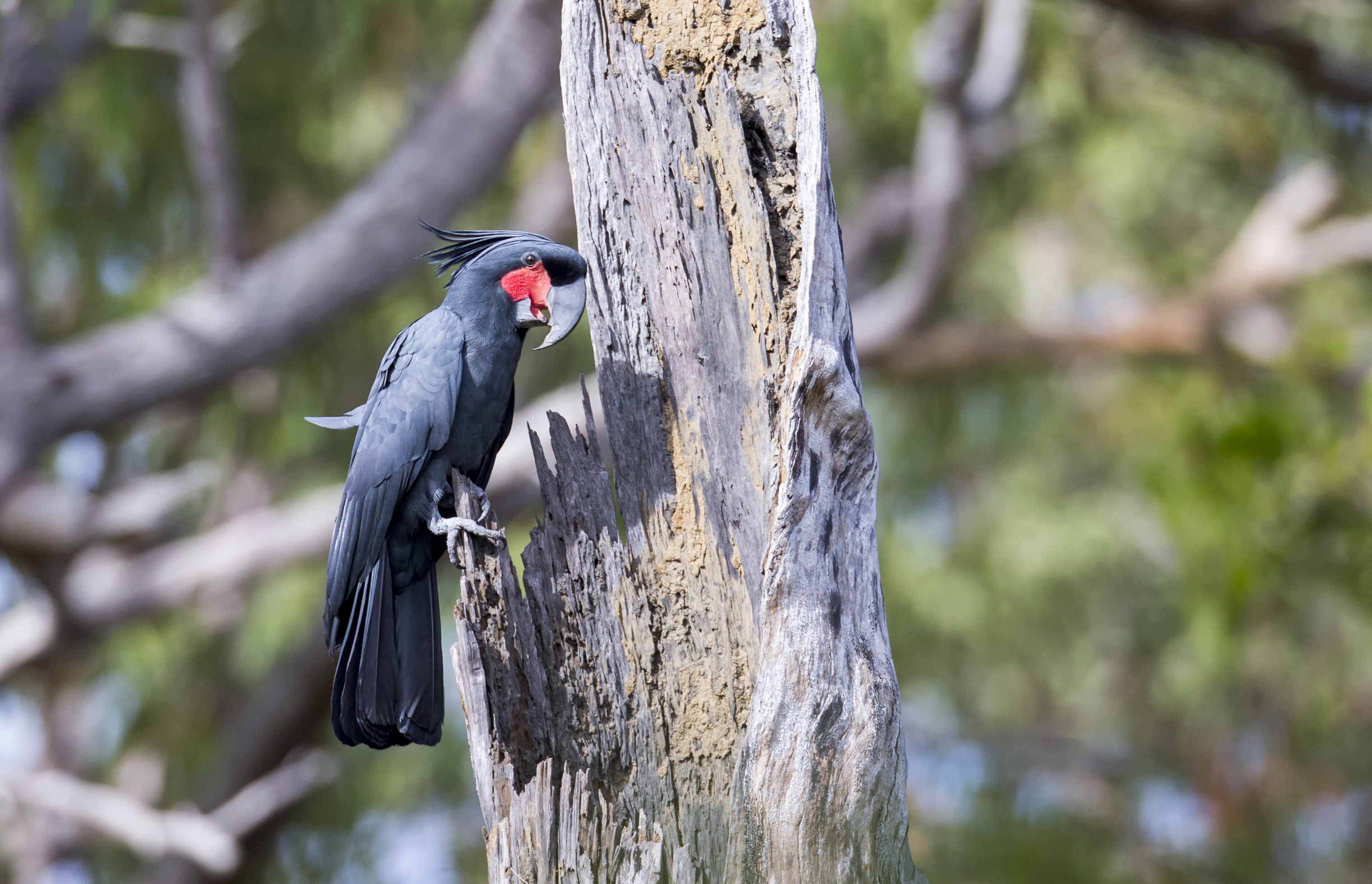 Palm Cockatoo Probosciger aterrimus at nest site. In Australia they are only found on the tip of Cape York so they are a bit rare. They chew the wood around the entrance into sawdust for the nest below, which he hasn't started yet.